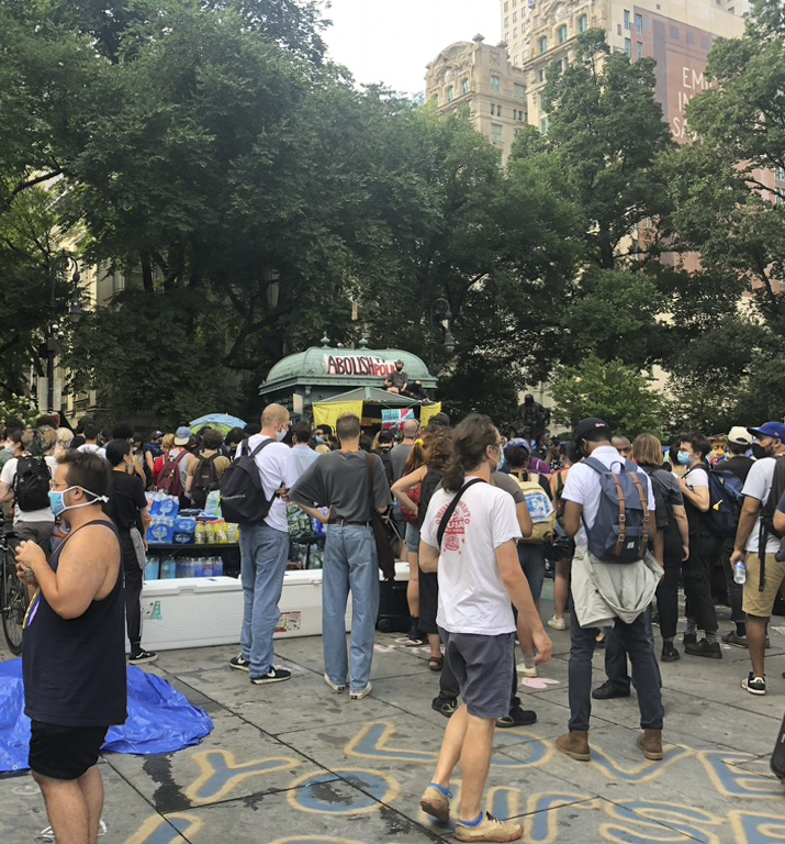 Protesters listening to a speech at the City Hall plaza calling for the defunding of the NYPD prior to the budget hearing on July 1, 2020